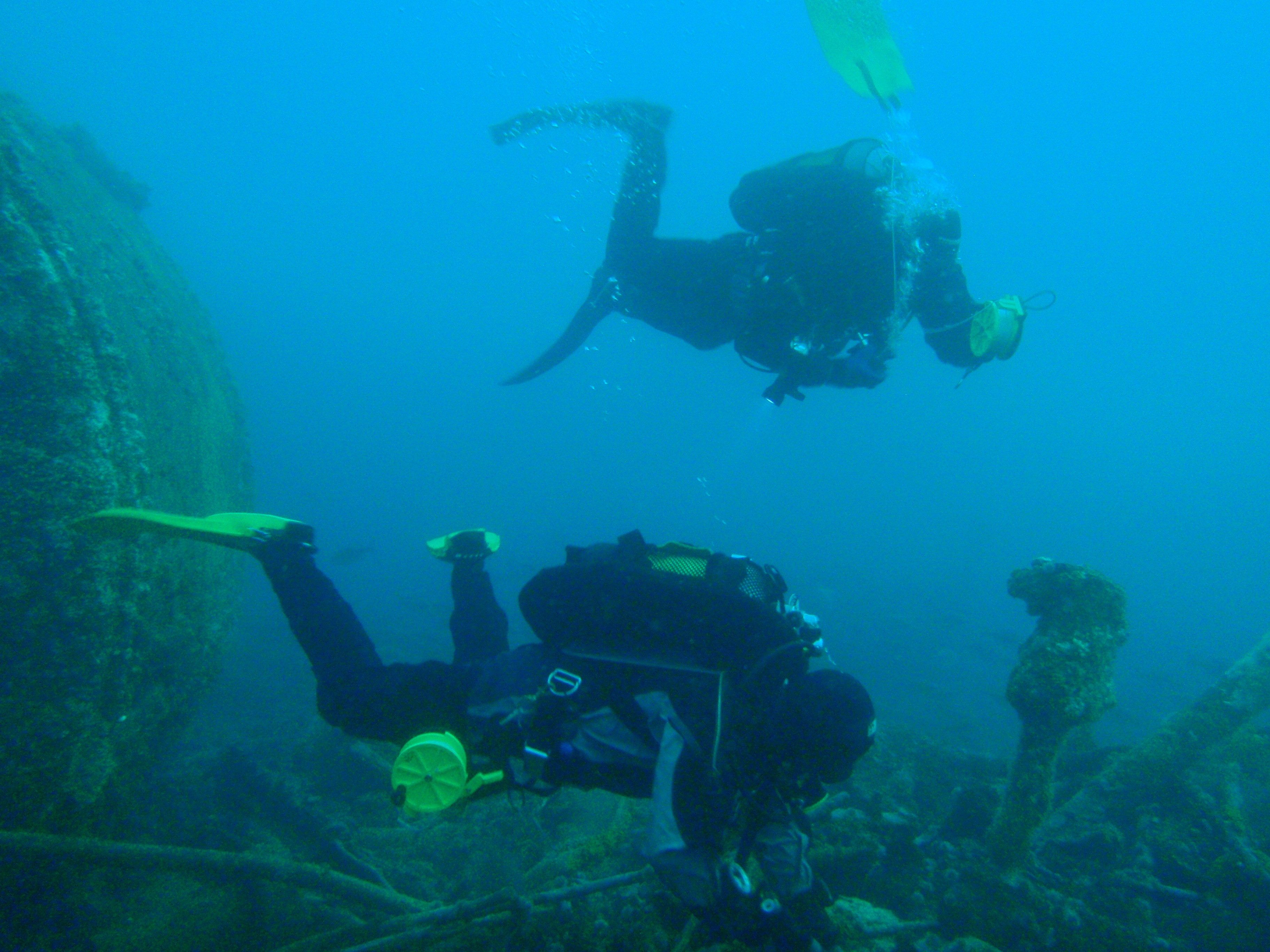 A scuba diver preparing to deploy a delayed surface marker buoy over a mound of wreckage near the boiler of the wreck of the SS Cape Matapan in Table Bay, near Cape Town